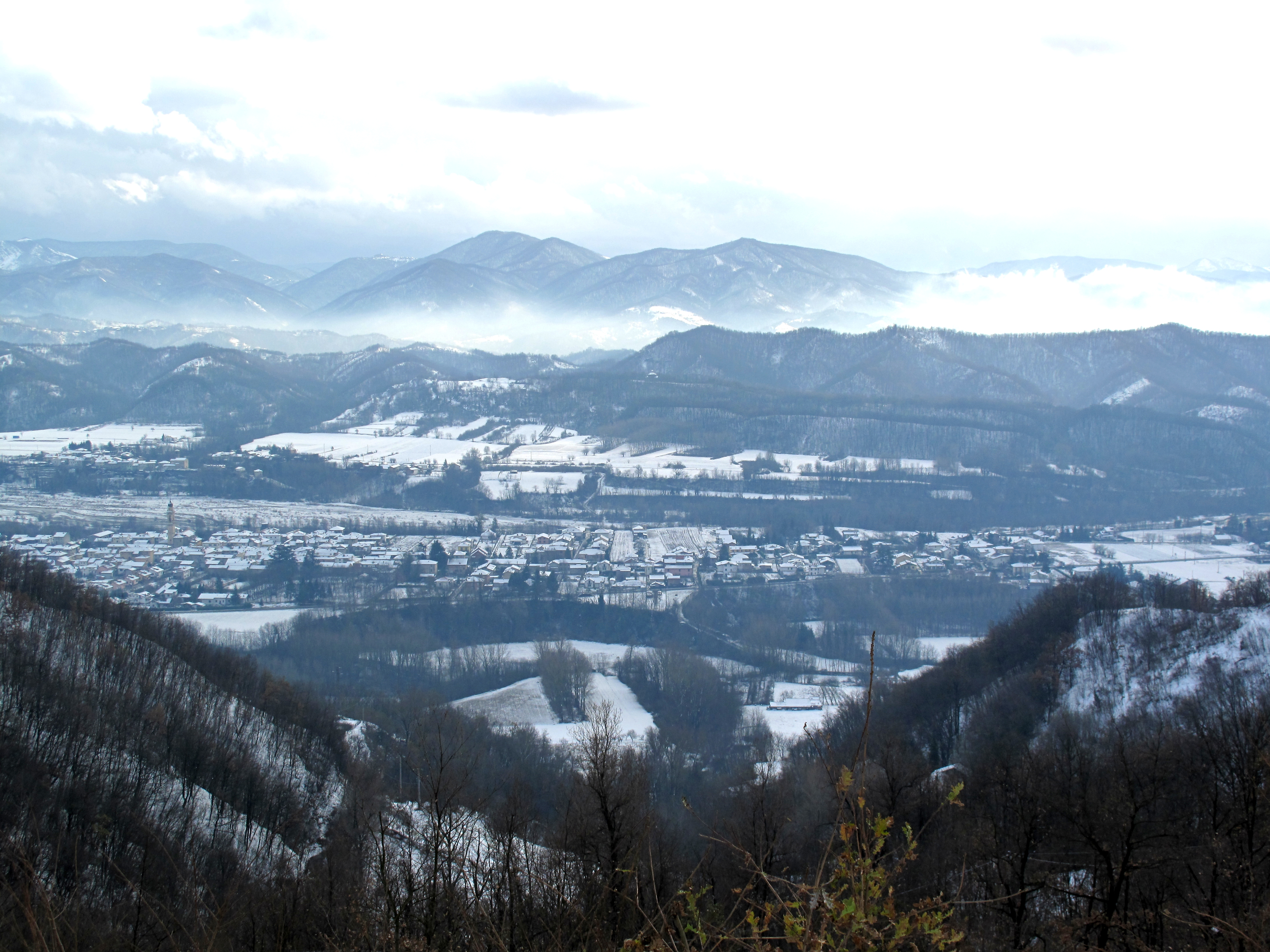 Borghetto Borbera (Alessandria) seen from Santuario Madonna Cà del Bello